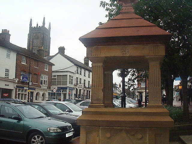 Water Fountain in East Grinstead